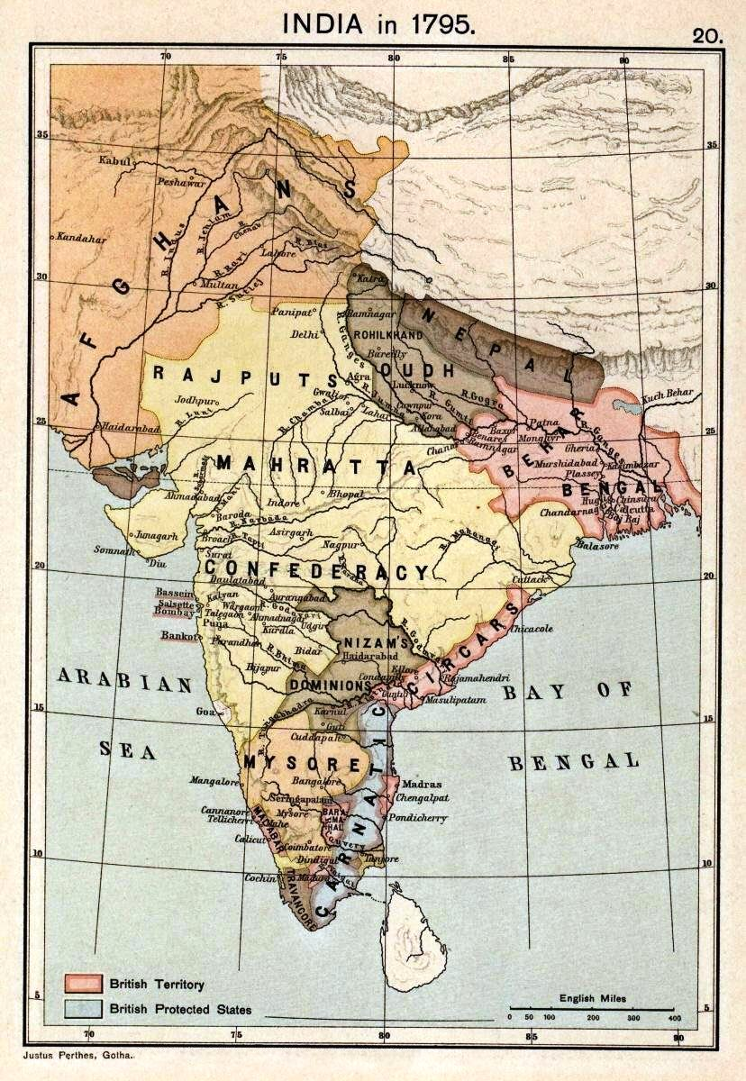 Map of India in 1795 from: Joppen, Charles [SJ.] (1907) A Historical Atlas of India for the use of High-Schools, Colleges, and Private Students, London, New York, Bombay, and Calcutta: Longman Green and Co. Pp. 16, 26 maps. Scanned from personal copy, reduced, uploaded by Fowler&fowler«Talk» 23:49, 24 February 2009 (UTC)